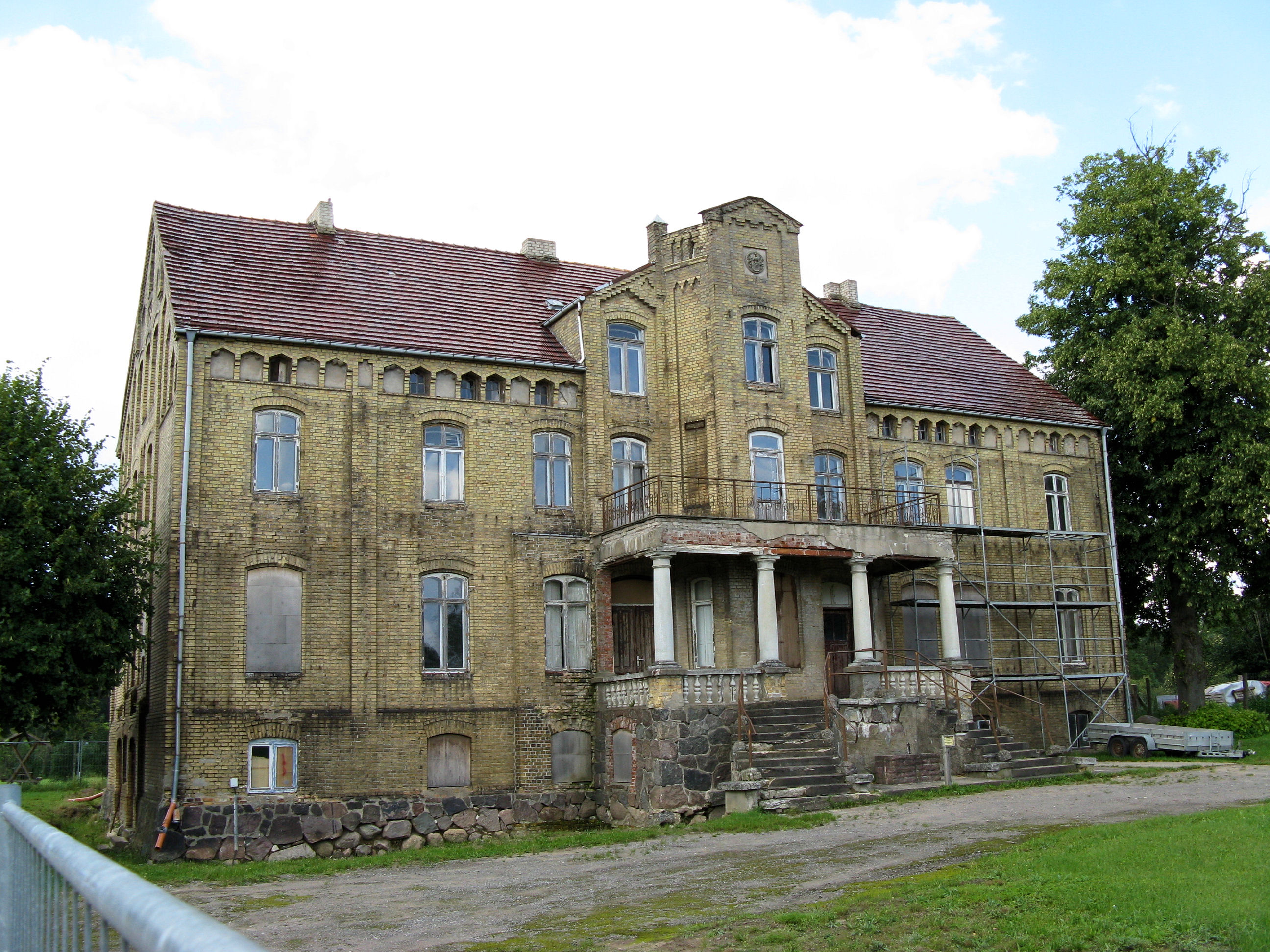 Manor house in Weitendorf, district Parchim, Mecklenburg-Vorpommern, Germany